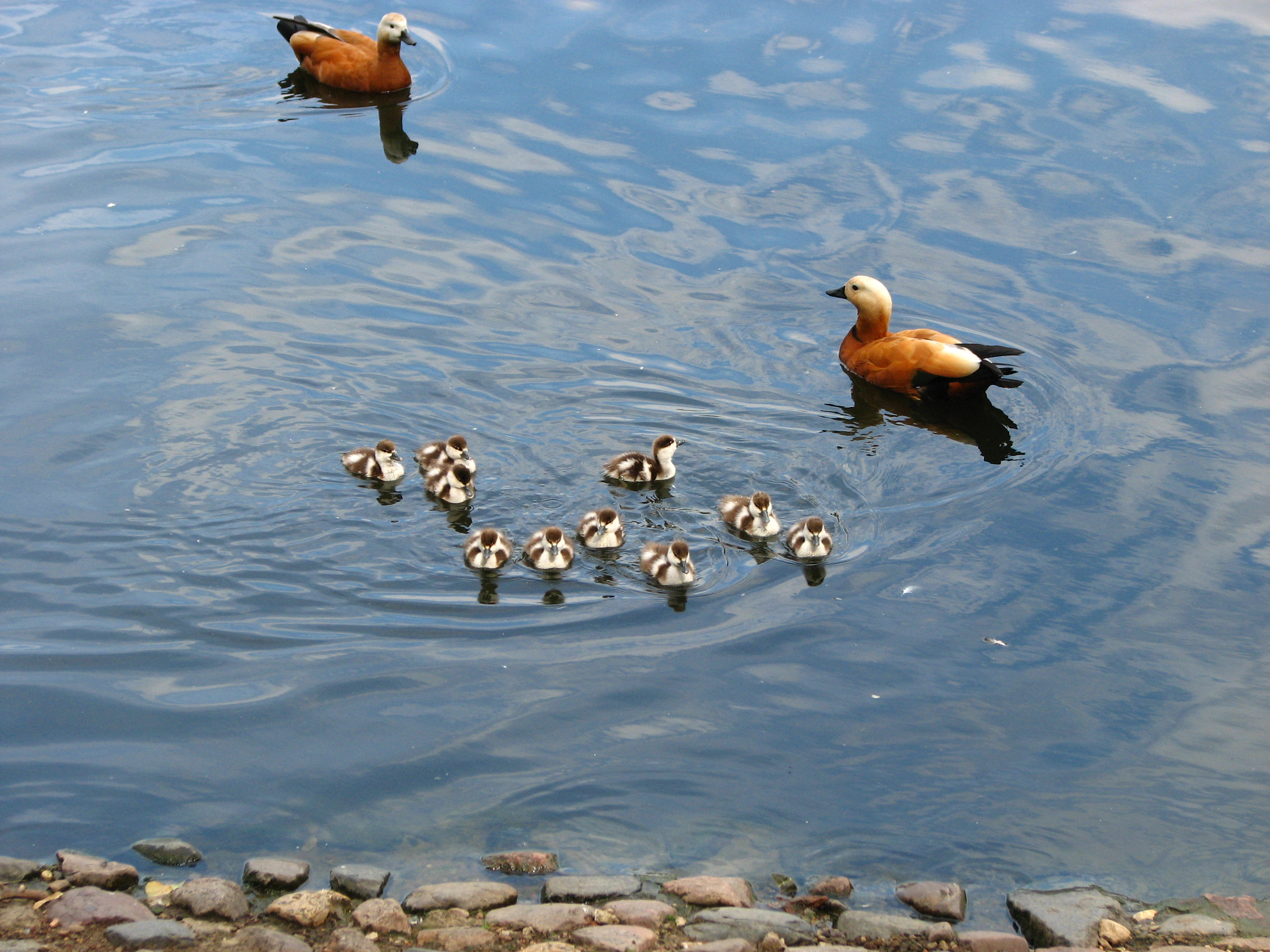 Moscow Zoo. Ruddy Shelducks with a brood (Tadorna ferruginea)